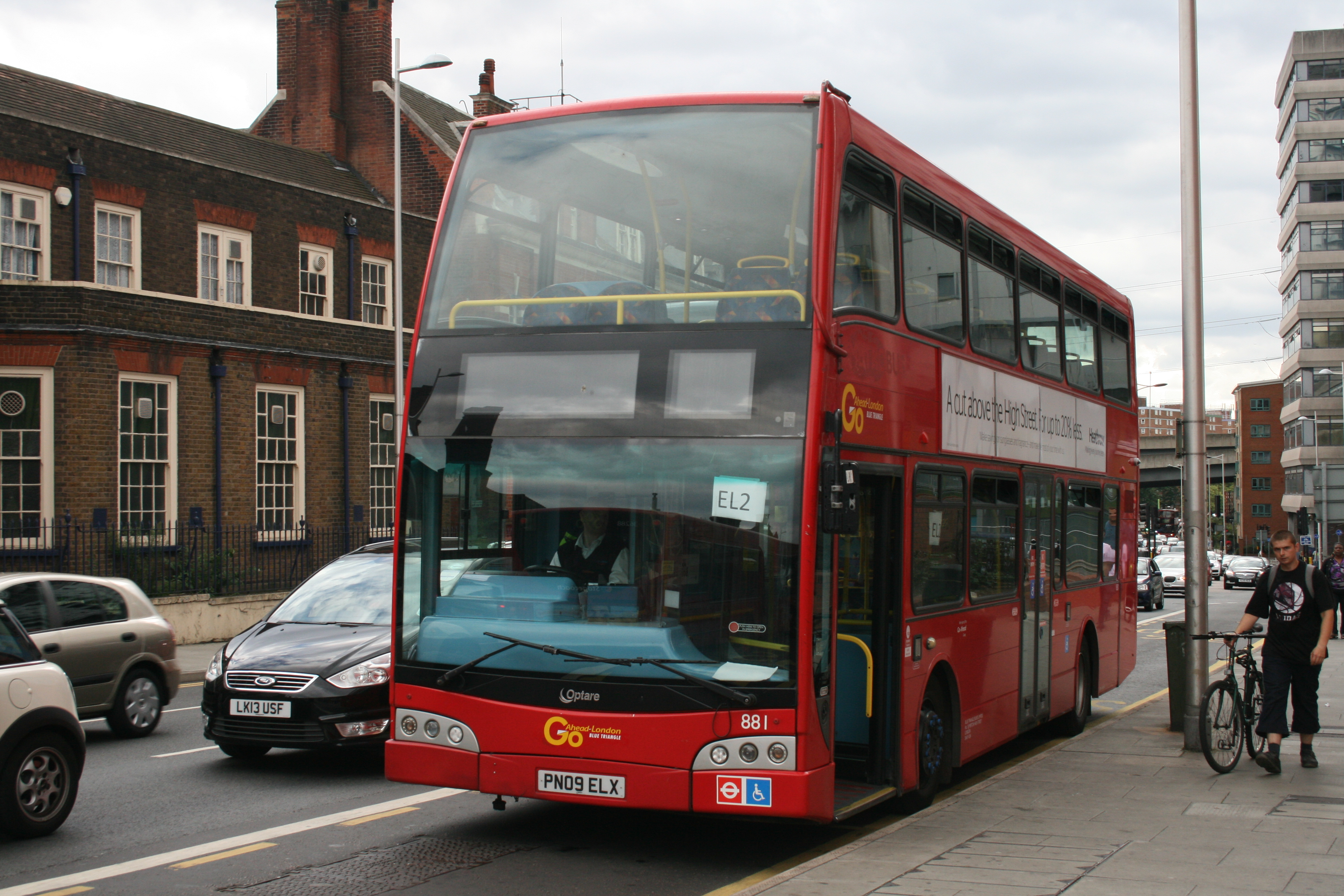 A4 Paper, that is! Blue Triangle 881 on Route EL2, Ilford Hill